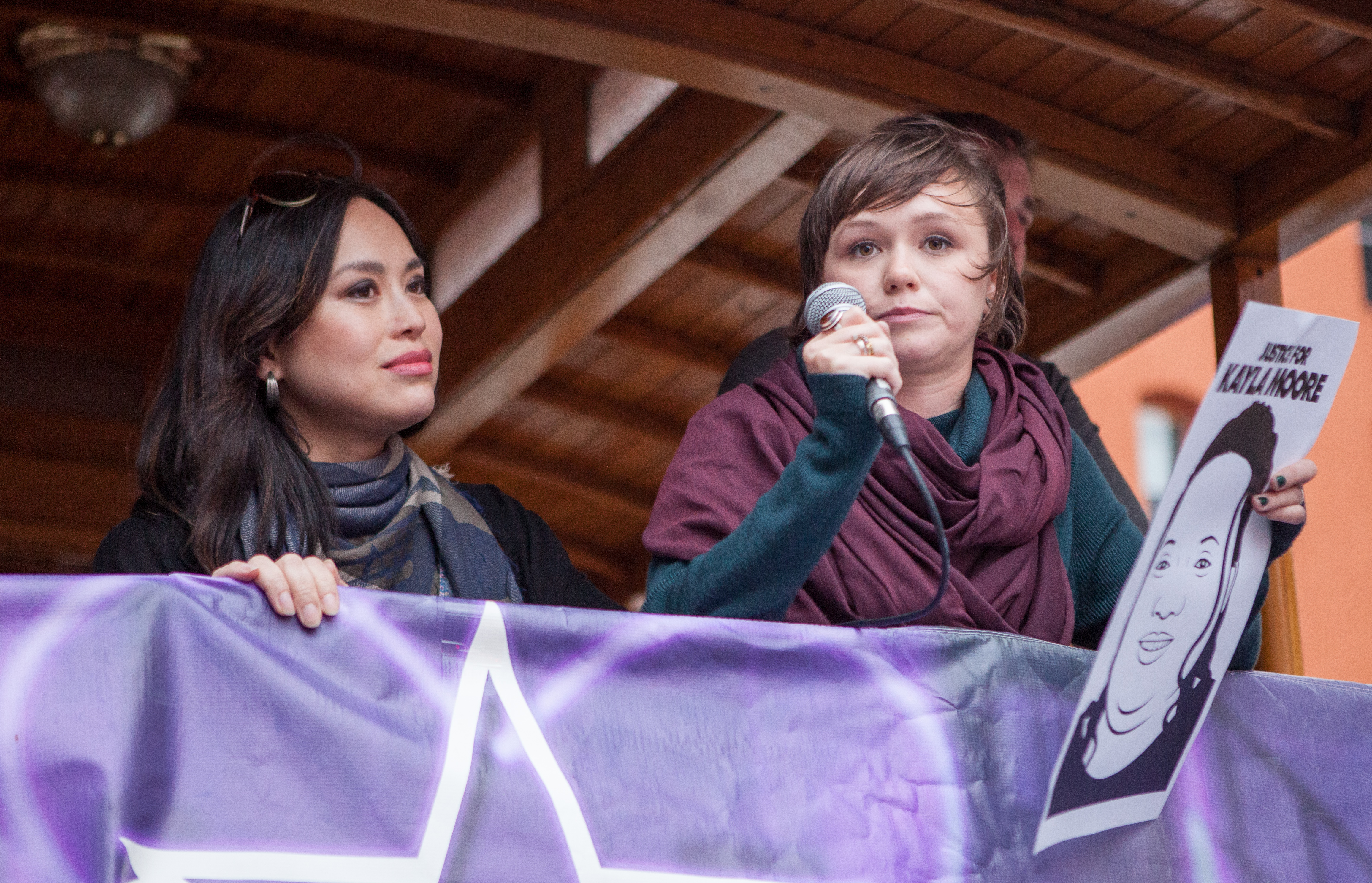 "When We Rise" miniseries actors Ivory Aquino and Emily Skeggs speak at Trans March San Francisco 2017.